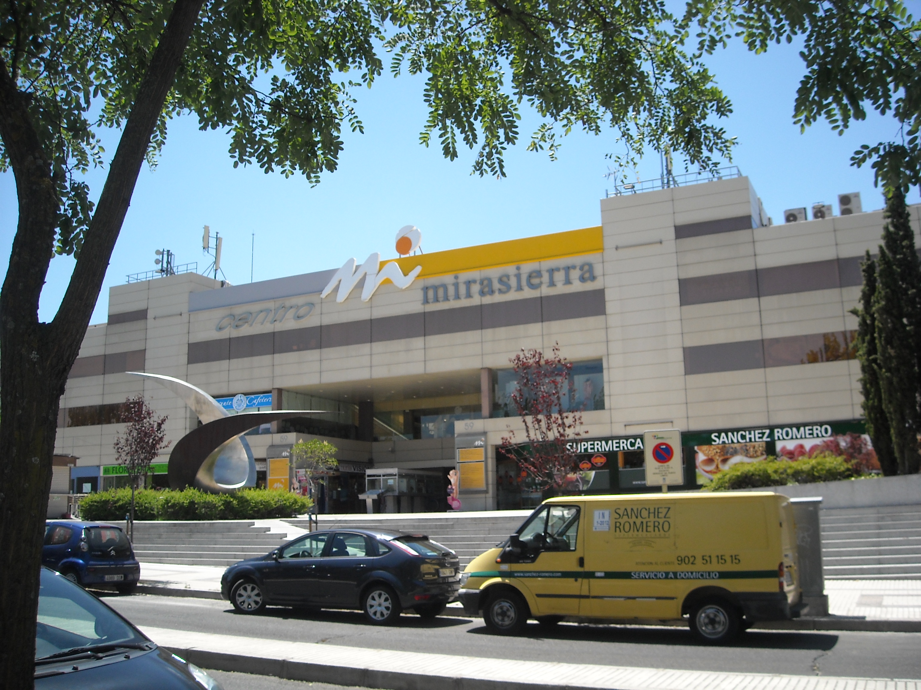 Shopping Centre